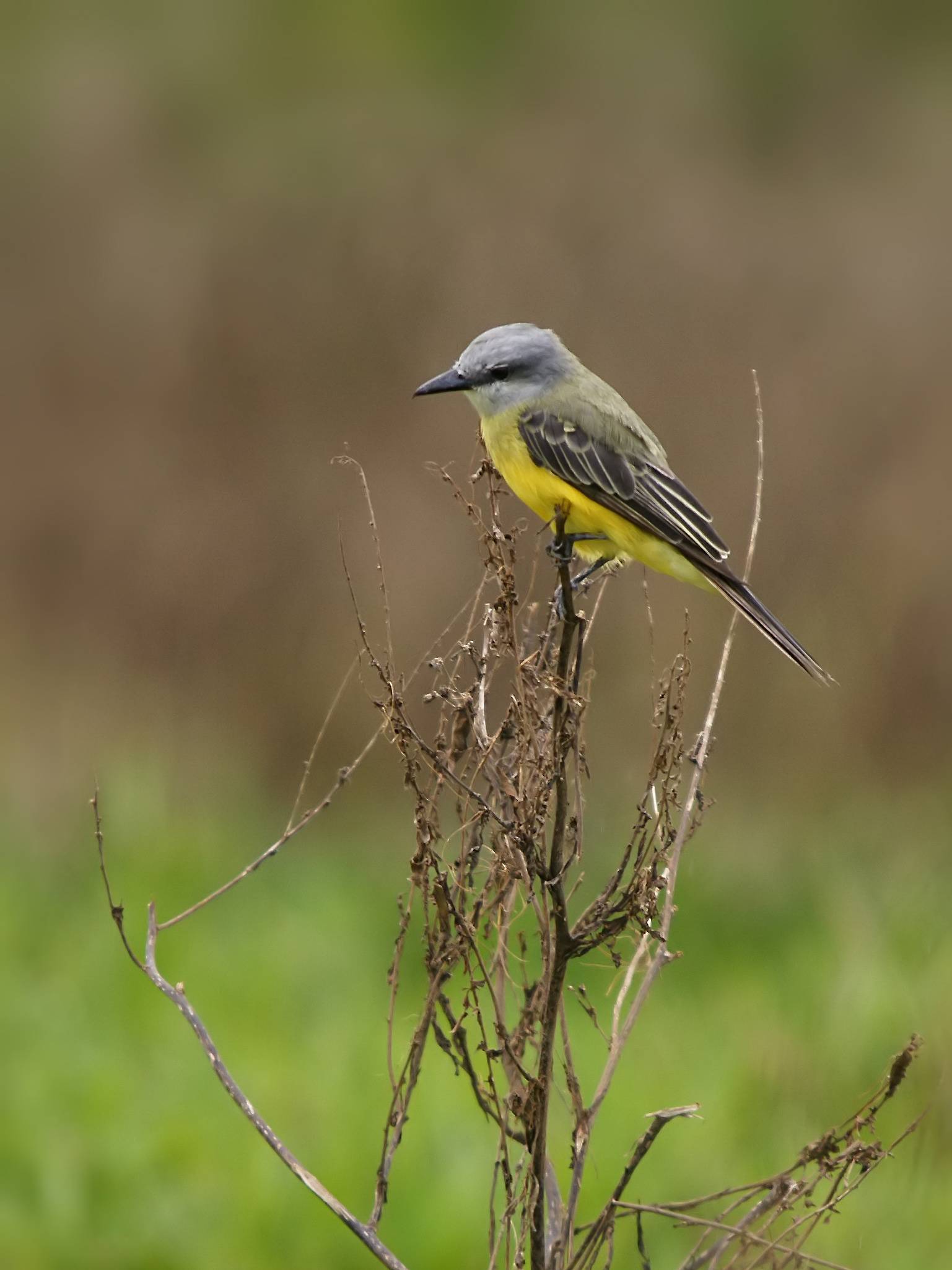 Grey-capped Flycatcher at Caño Negro, Costa Rica